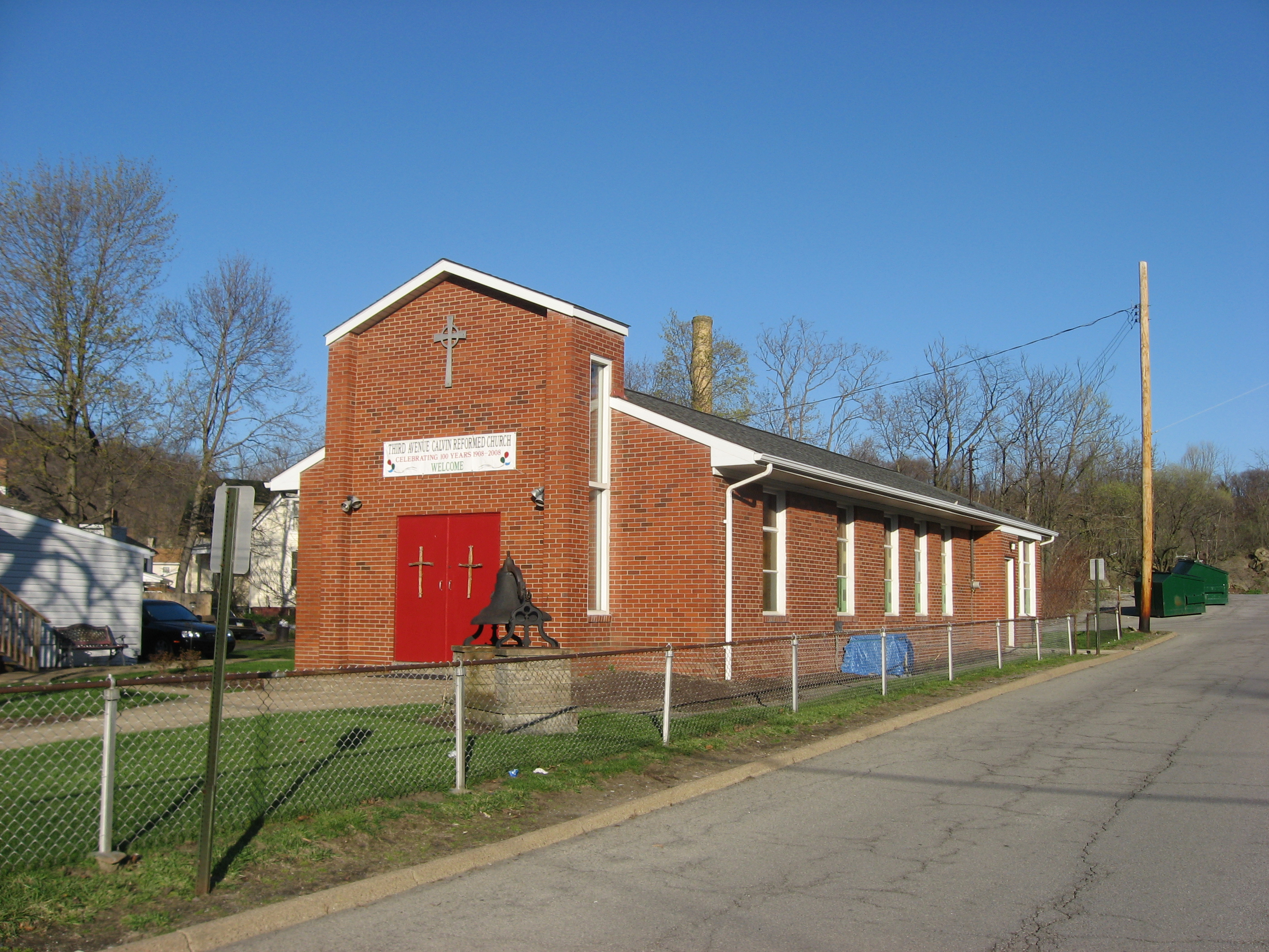 Third Avenue Calvin Reformed Church, located at 1012 Third Avenue in Beaver Falls, Pennsylvania, United States.